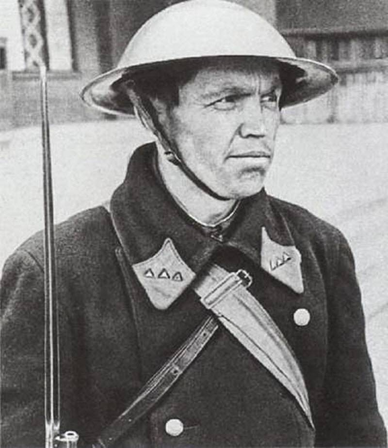 Soviet militia helmet circa 1942